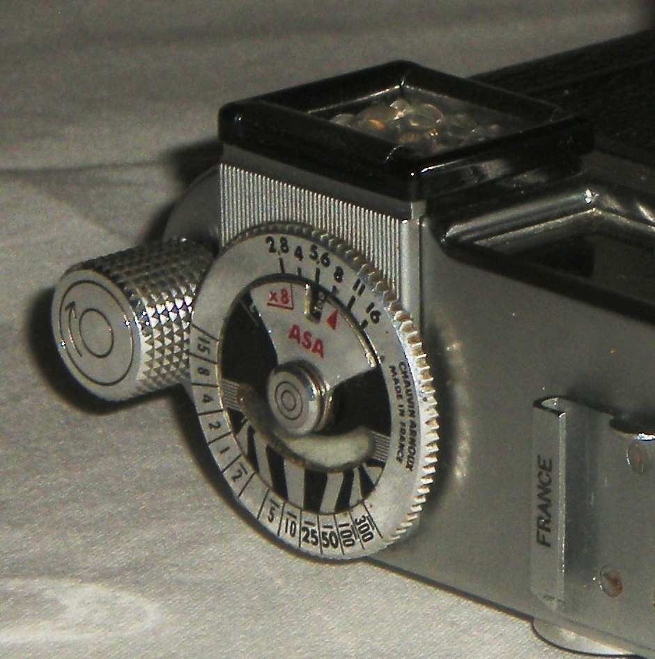 Focasport ID, dial of the Chauvin-Arnoux selenium light-meter (1960).